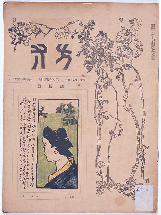 The cover to the Japanese graphics magazine Hōsun (方寸) Volume 4 Issue 4. Colour print inset by Yamamoto Kanae.